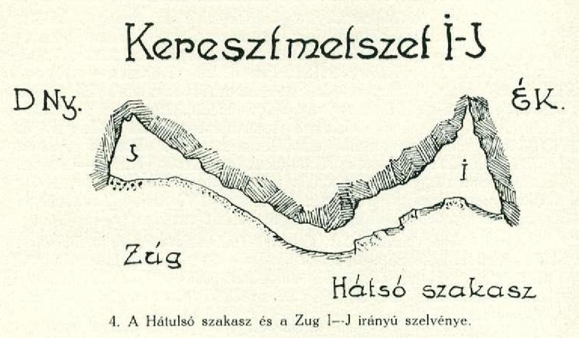 Map of Tábor-hegyi Cave.